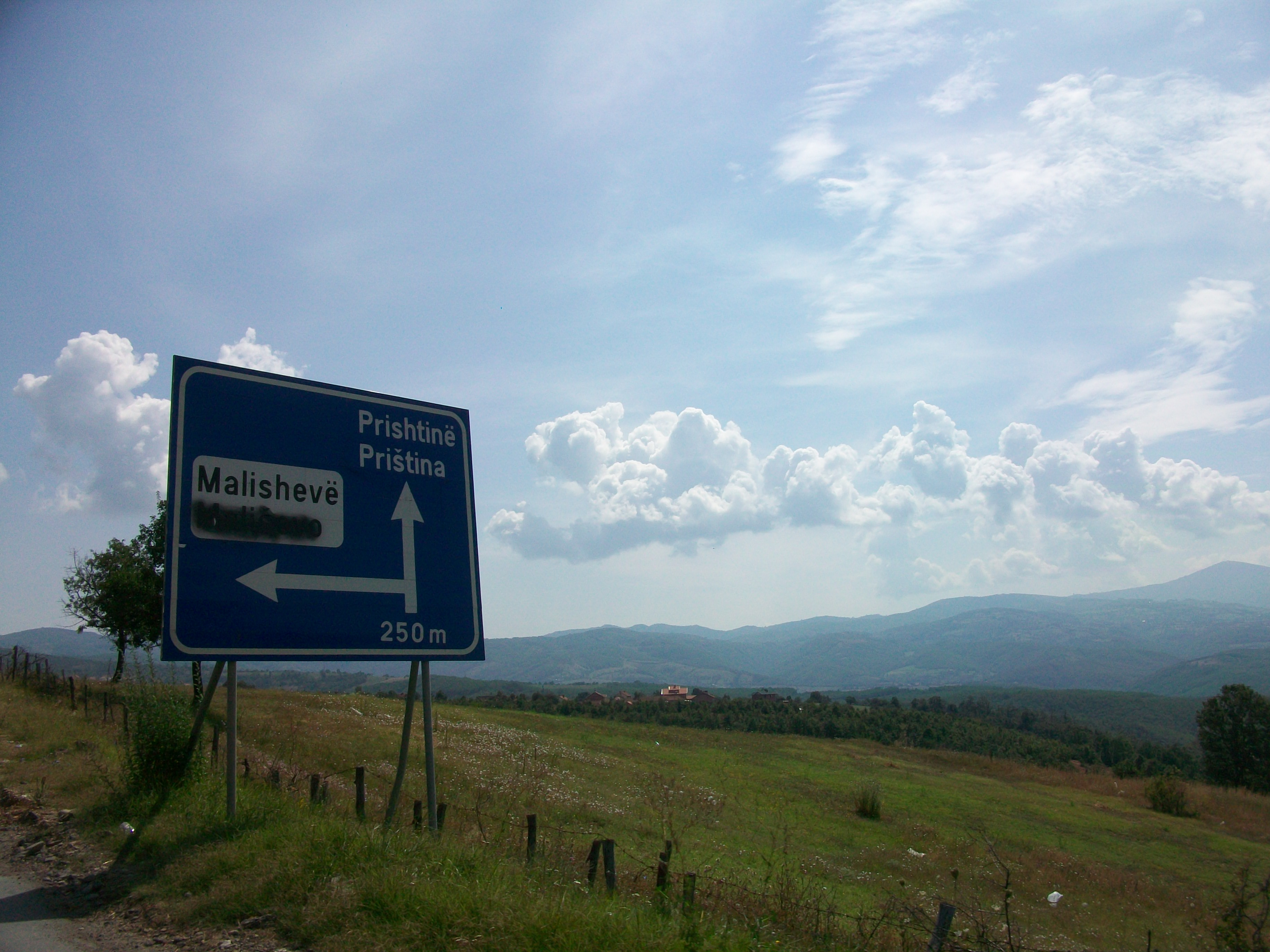 Pictures from Prizren Kosovo